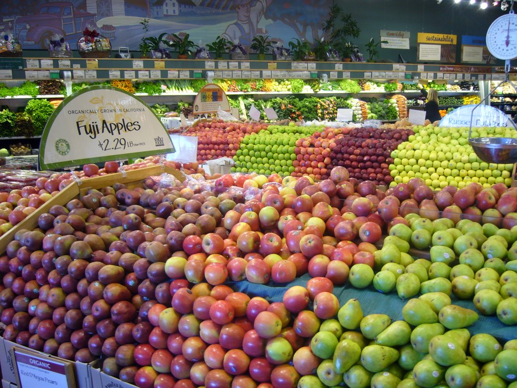 70.145.93.68 21:54, 9 March 2008 (UTC) Different kinds of Apples in a supermarket and apple are my favoritor